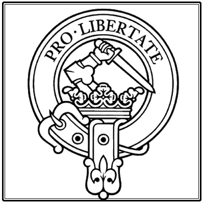 Clan badge for Wallace